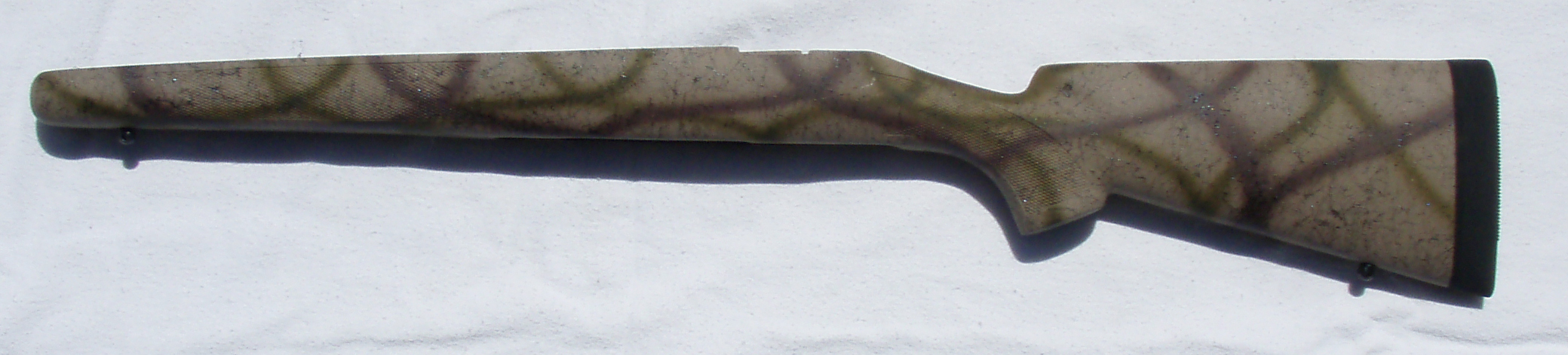 Custom rifle stock with camo finish - Bell & Carlson